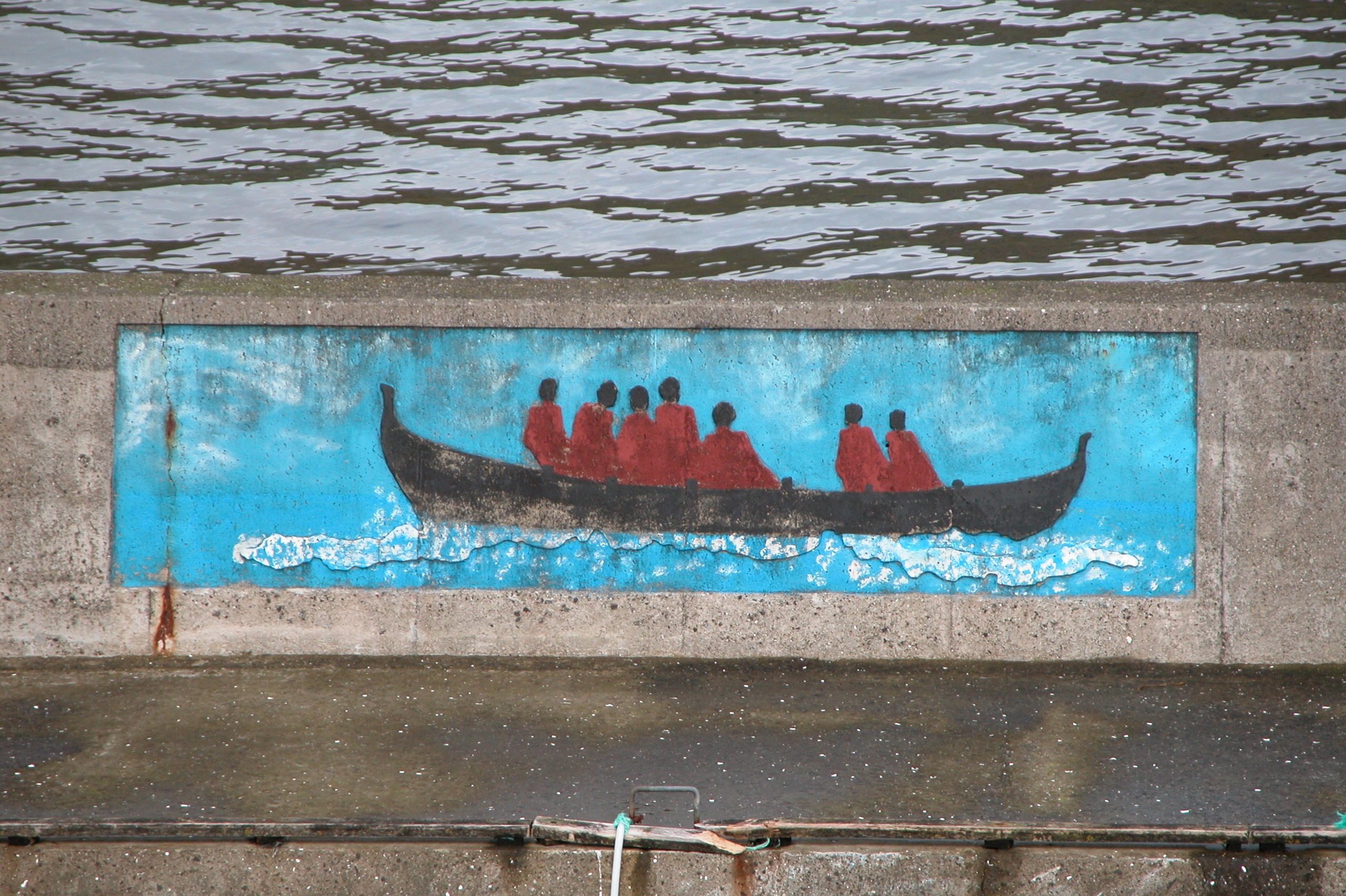 Art at the harbour of Húsavík on Sandoy, Faroe Islands